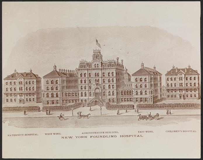 Photrograph of an engraved view of the New York Foundling Hospital at 3rd Avenue between 68th and 69th Streets. Circa 1899 by Byron Company. The hospital, then an orphanage, occupied the complex from 1873 to 1958, when it was sold and demolished, and the hospital moved to a new site across Third Avenue.